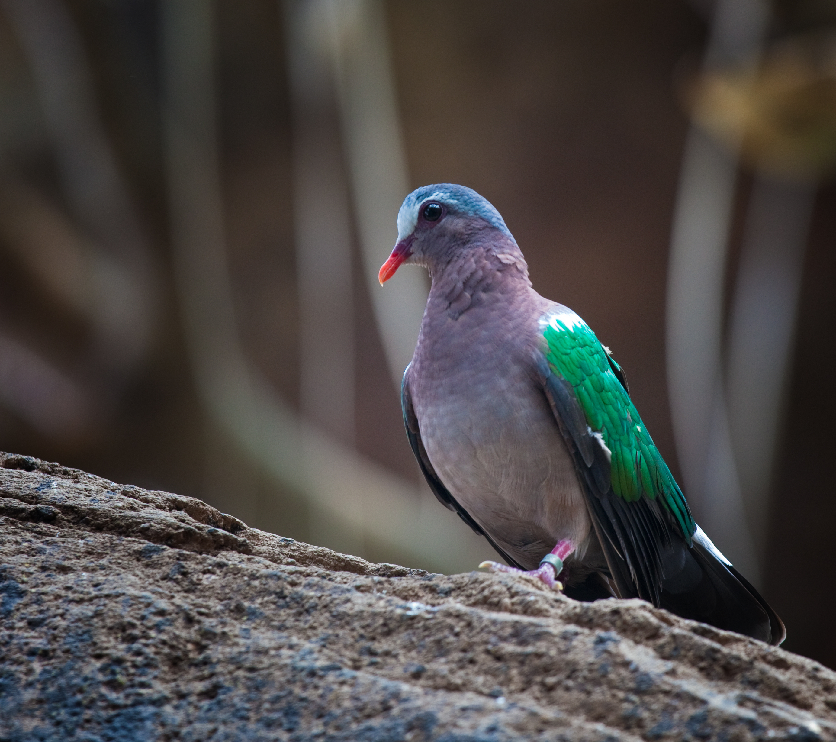 A male Emerald Dove at the National Aquarium, Baltimore, Maryland, USA.